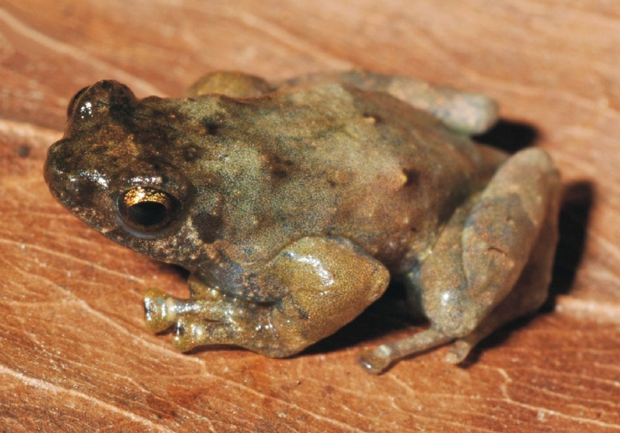 Anodonthyla theoiLiving specimen from Manombo Special Reserve